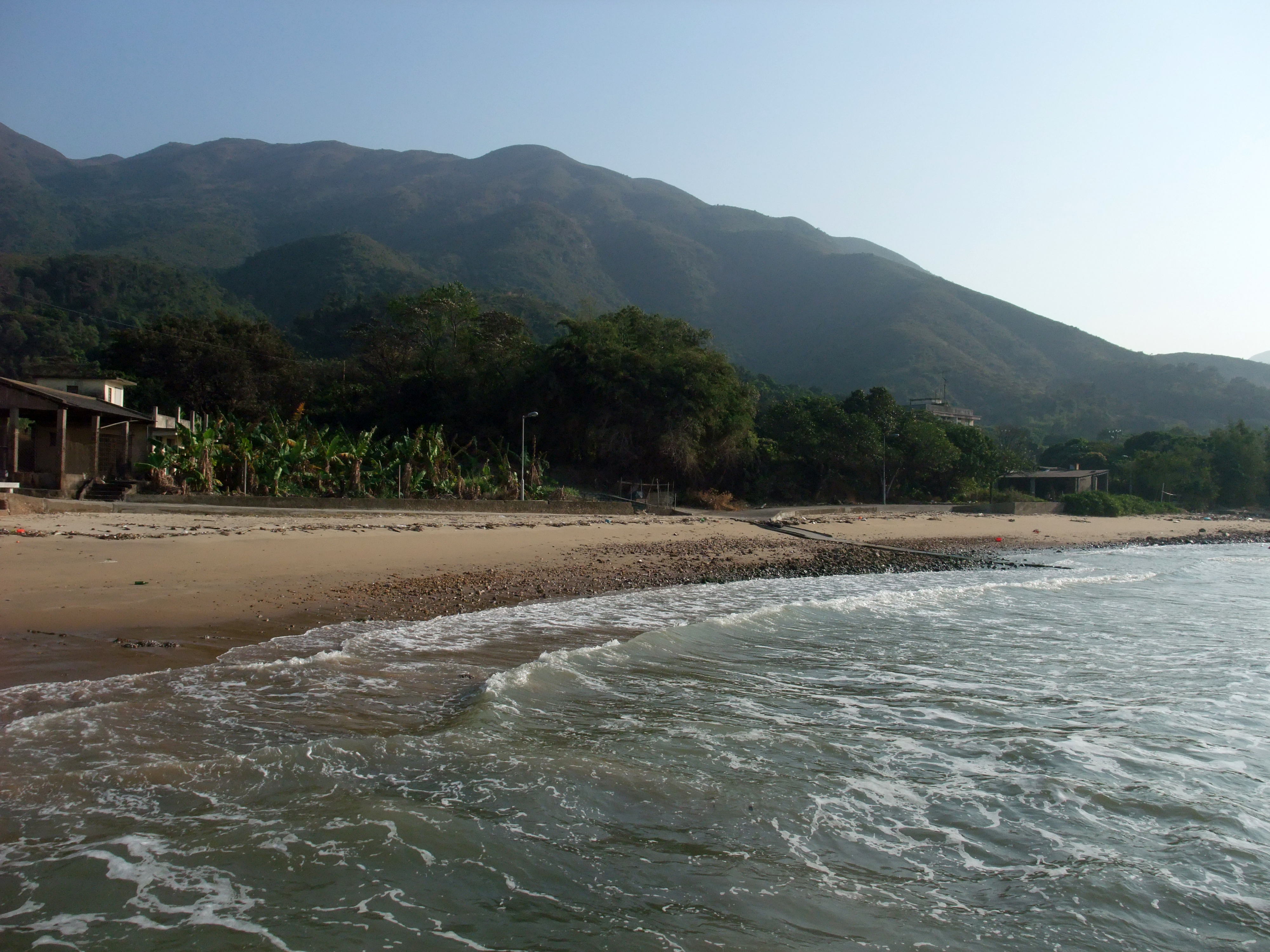 Photo of San Shek Wan